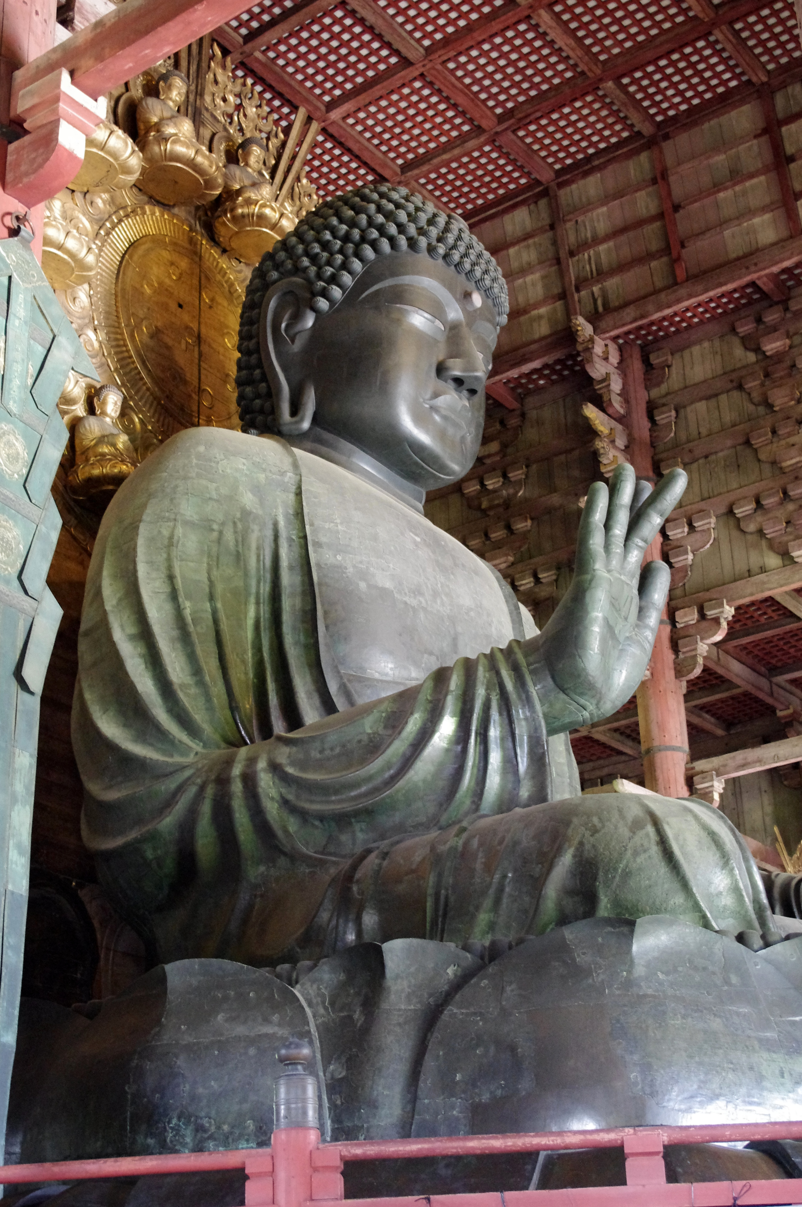 The Vairocana of Todaiji Temple, Nara, Japan